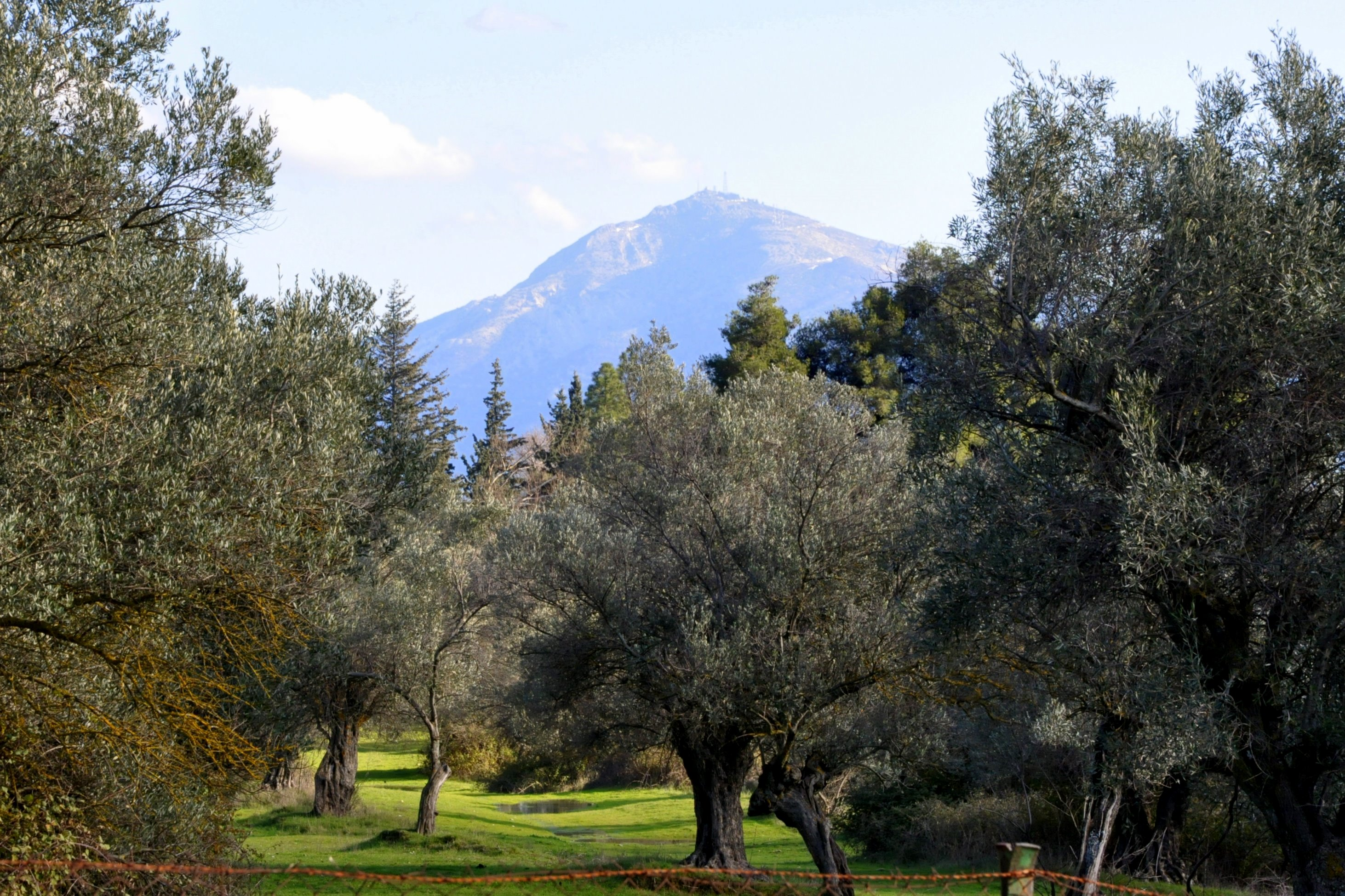 Penteli Mountain, as seen from Tatoi. Tatoi is the former king's property, near Athens, Greece. And now it forms a part of the Parnitha Mountain National Park.